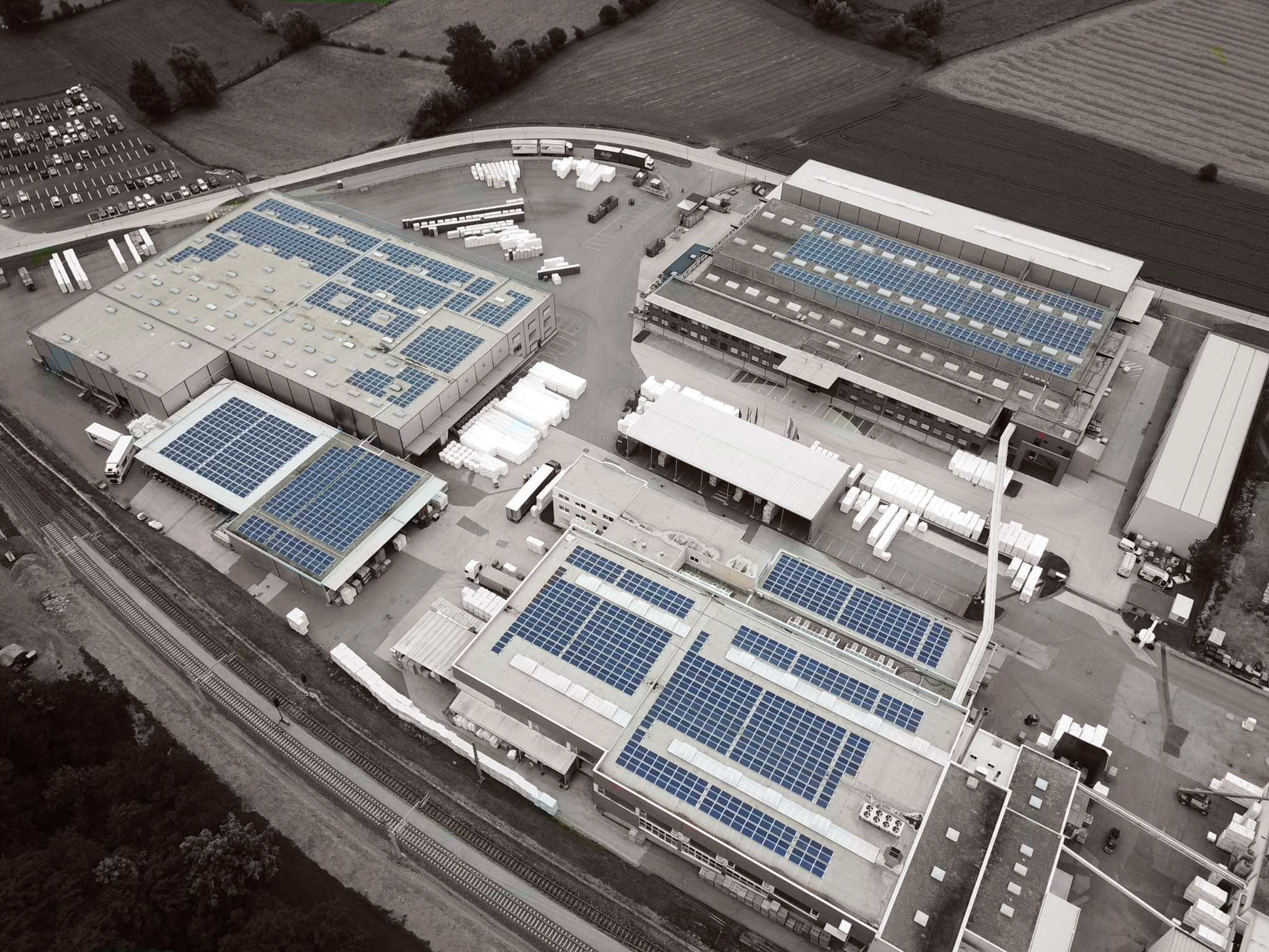 Headquater HIRSCH Servo AG Glanegg - Kärnten - Österreich